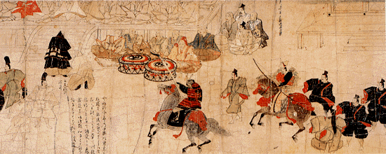 Tengu Soshi (Onjoji maki), private, Ishikawa Prefecture, kept at the Ishikawa Prefectural Museum of Art, Kanazawa, Ishikawa, Japan